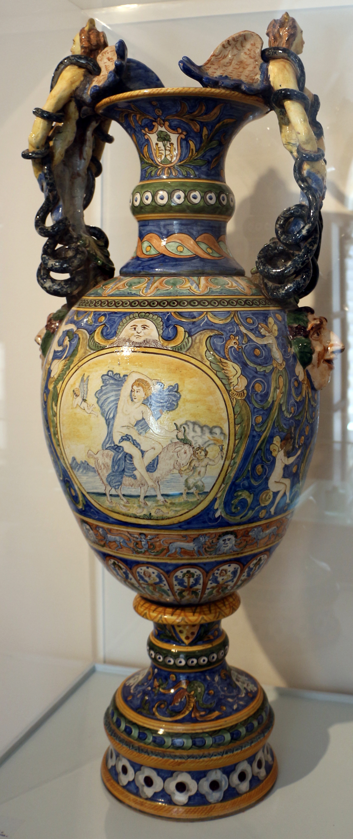 Rector's palace